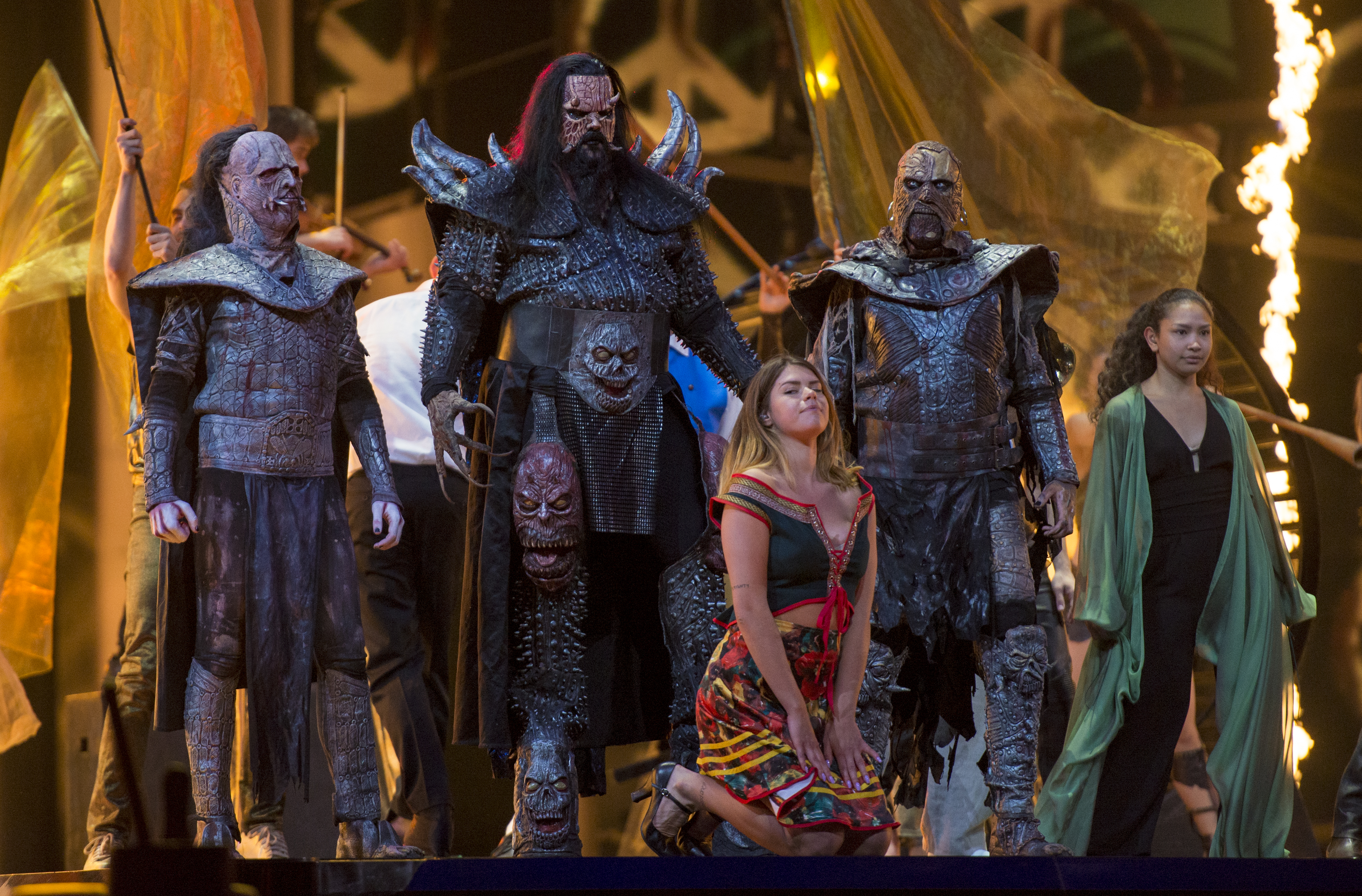 The interval act of the final, during the first dress rehearsal of the Eurovision Song Contest 2016 in Stockholm. (Help translate this text)